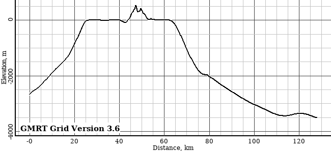 A profile from abyssal plain to volcano summit is shown. The current (2018-2019) swarm of earthquakes is happening under the eastern (RH) flank.